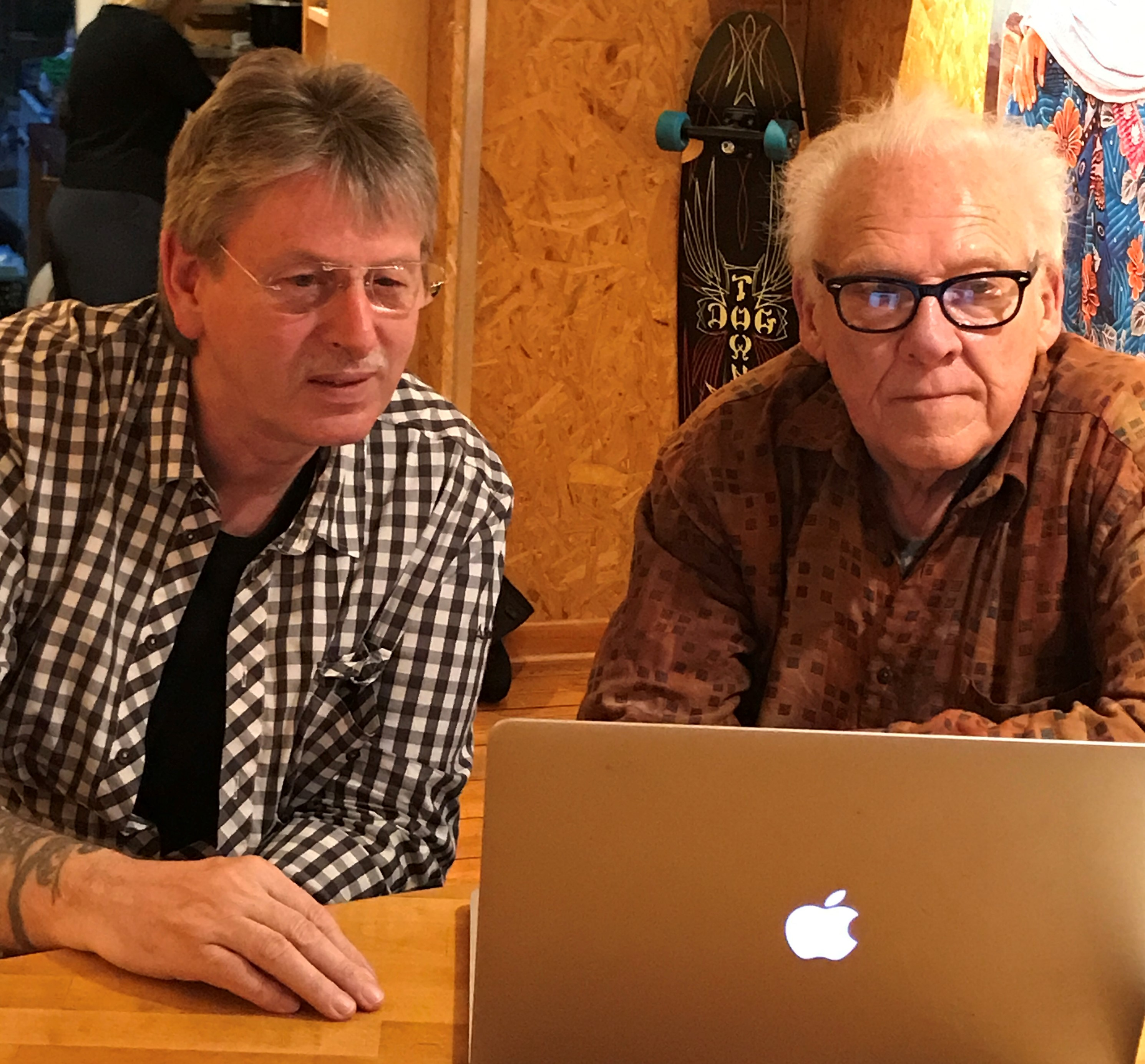 From 26.10. to 29.10. Manfred Kohrs met Tuttle at the "Fort Notch" in Marl Lyle for a weekend together. A conversation about the tattoo story with interview, pictures and film footage.